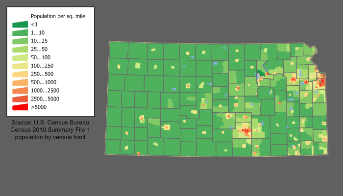 Category:U.S. State Population Maps Category:Kansas maps Kansas population density map based on Census 2010 data. See the data lineage for a process description.